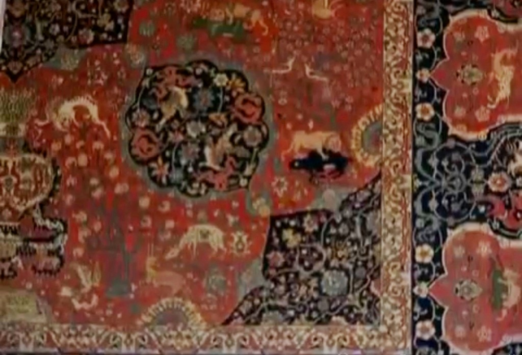 Fragment of Tabriz carpet "Ovchulug" in the Azerbaijan Carpet Museum, Baku.